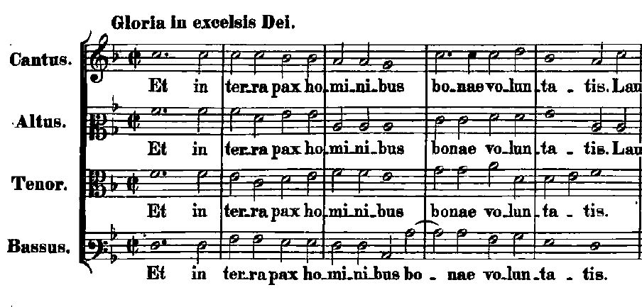 From Missa Brevis